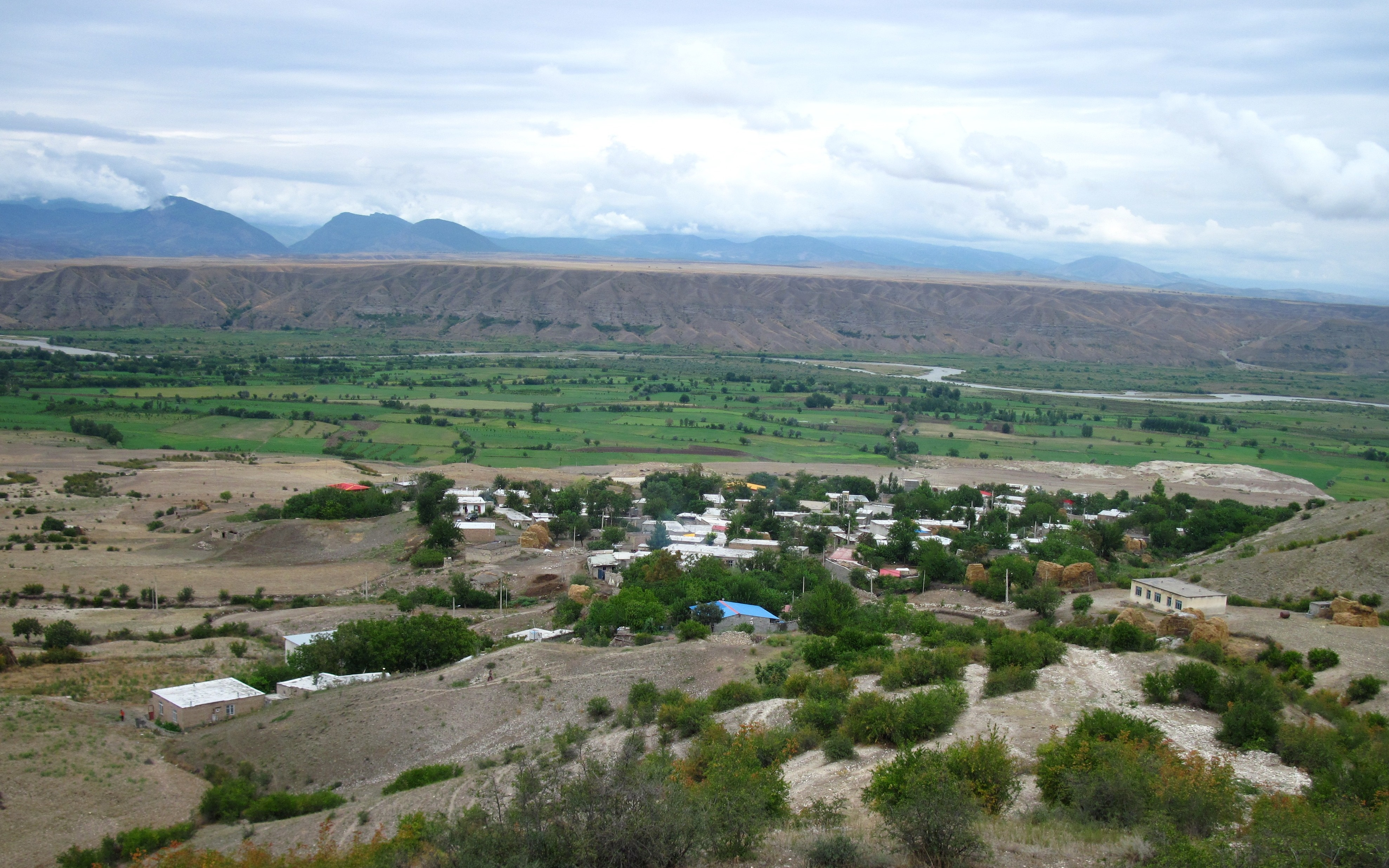 This photo was taken by Ravanbakhsh Leysi on August 2013. It is intended for Tatar-e Sofla, East Azerbaijan wikipage.